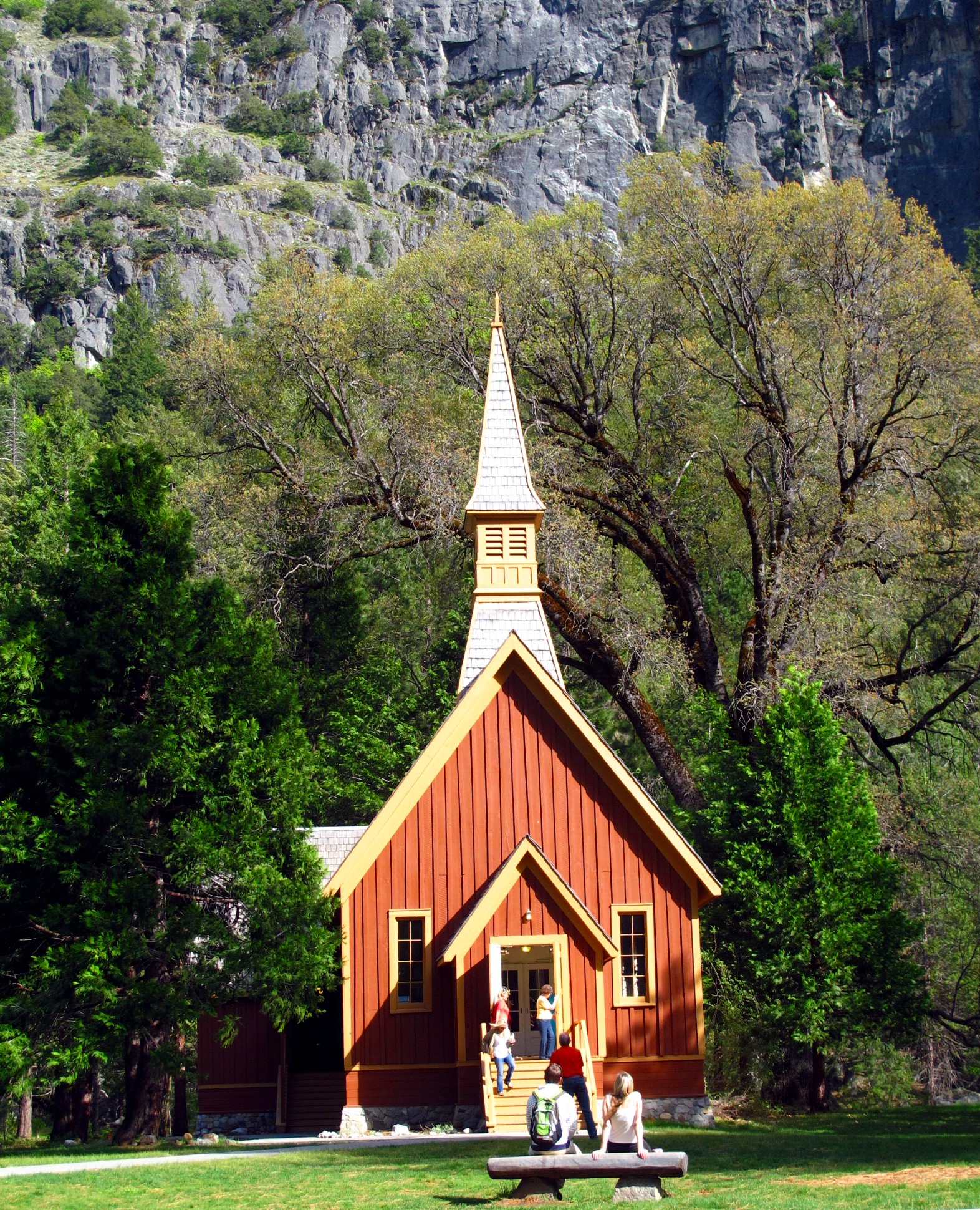 The beautiful Yosemite Valley Chapel in Yosemite Valley. The Carpenter Gothic style chapel is the oldest standing structure in Yosemite National Park. A Historic district contributing property on the National Register of Historic Places in Yosemite National Park.